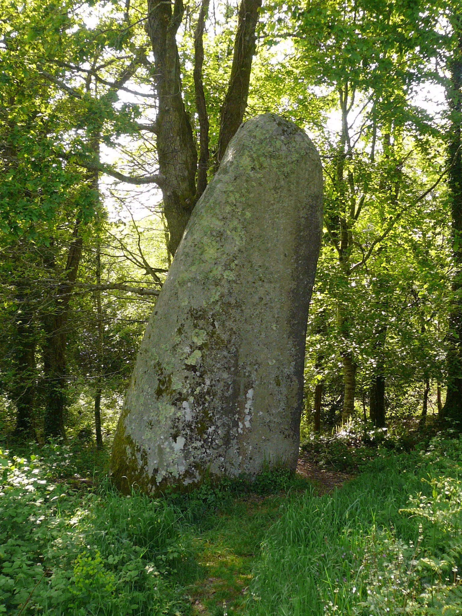 The large menhir of Kerangosker, commune of Pont-Aven, Finistère, Brittany, France.